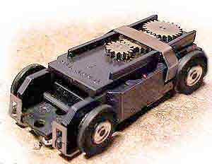 An Aurora Thunderjet-500 chassis, circa 1963.